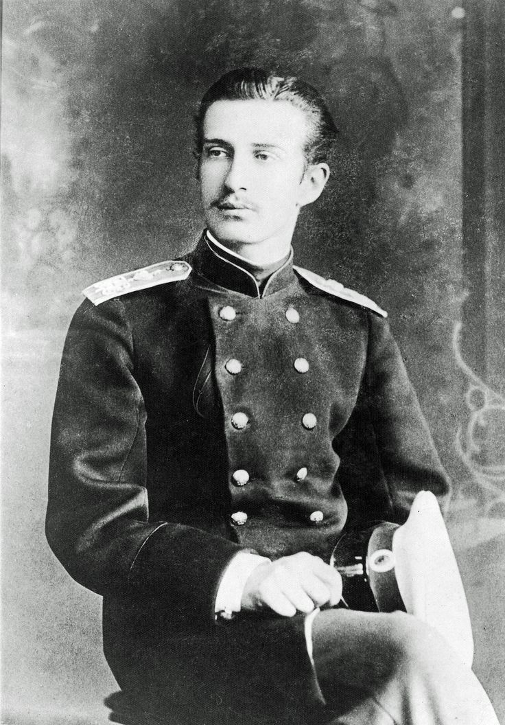 Grand Duke Nikolai Konstantinovich of Russia (1850 - 1918)